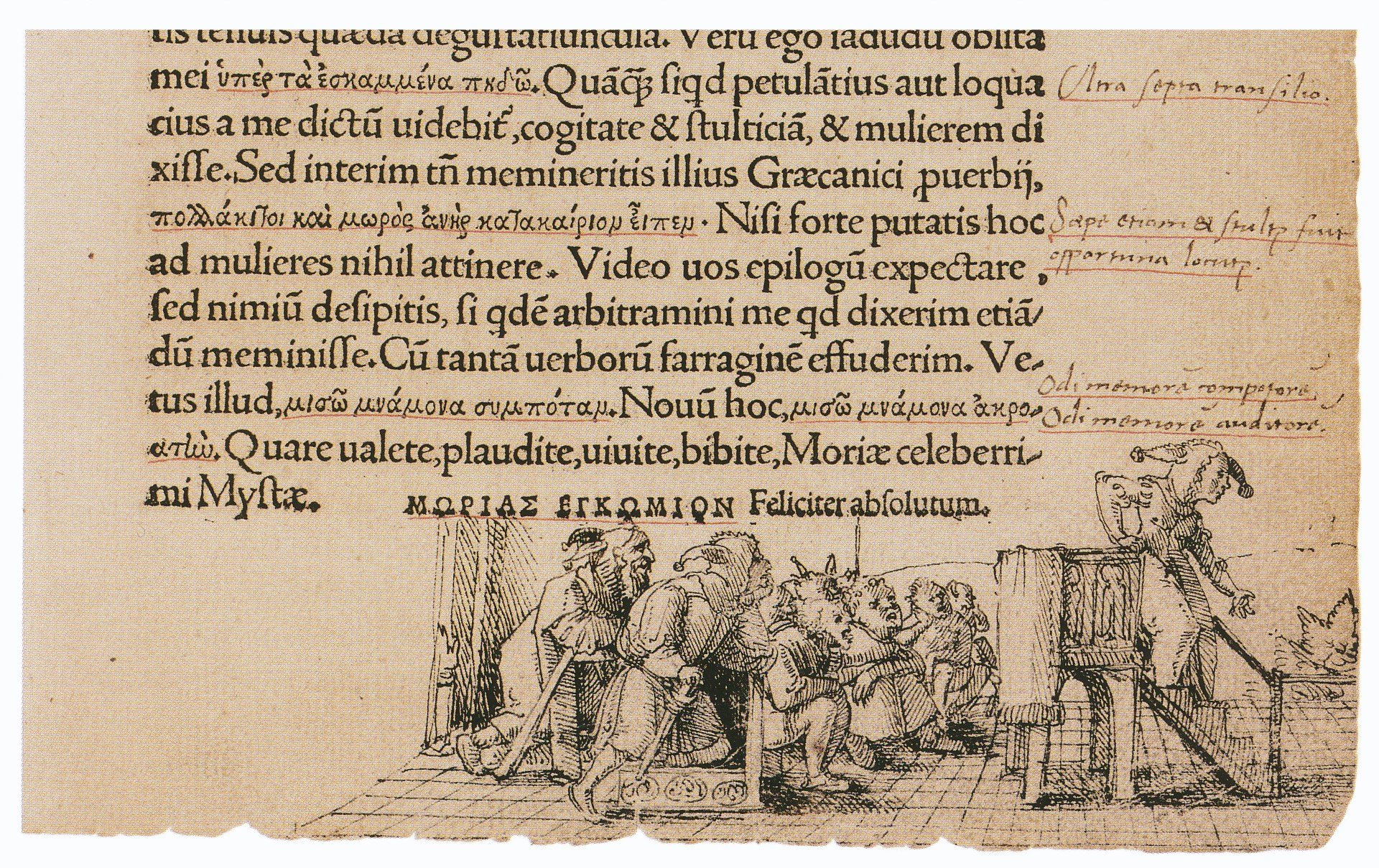 Folly Steps Down From the Pulpit, pen and ink marginal drawing in a copy of The Praise of Folly by Desiderius Erasmus. This is the last of 82 marginal drawings that include the first works of Holbein to survive intact. He and his brother, Ambrosius, drew them in the copy of The Praise of Folly owned by classical scholar Oswald Myconius, who planned to show the result to the author, his friend Erasmus. Most of the sketches, including this one, are by Hans Holbein, whose style and left-handed hatching identify him from Ambrosius. Here the figure of Folly steps down from the pulpit at last, her arm rigid from gesturing. References Buck, Stephanie, Hans Holbein, Cologne: Könemann, 1999, ISBN 3829025831, p. 10. Müller, Christian; Stephan Kemperdick; Maryan Ainsworth; et al, Hans Holbein the Younger: The Basel Years, 1515–1532, Munich: Prestel, 2006, ISBN 9783791335803, pp. 146–57.